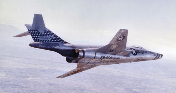 RF-101C of the 363d Tactical Reconnaissance Wing - Shaw Air Force Base, SC.\